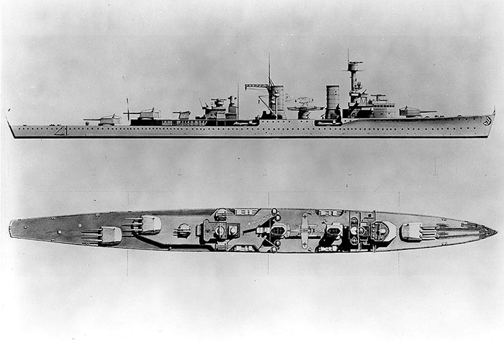 recognition drawings of German Light Cruiser Köln